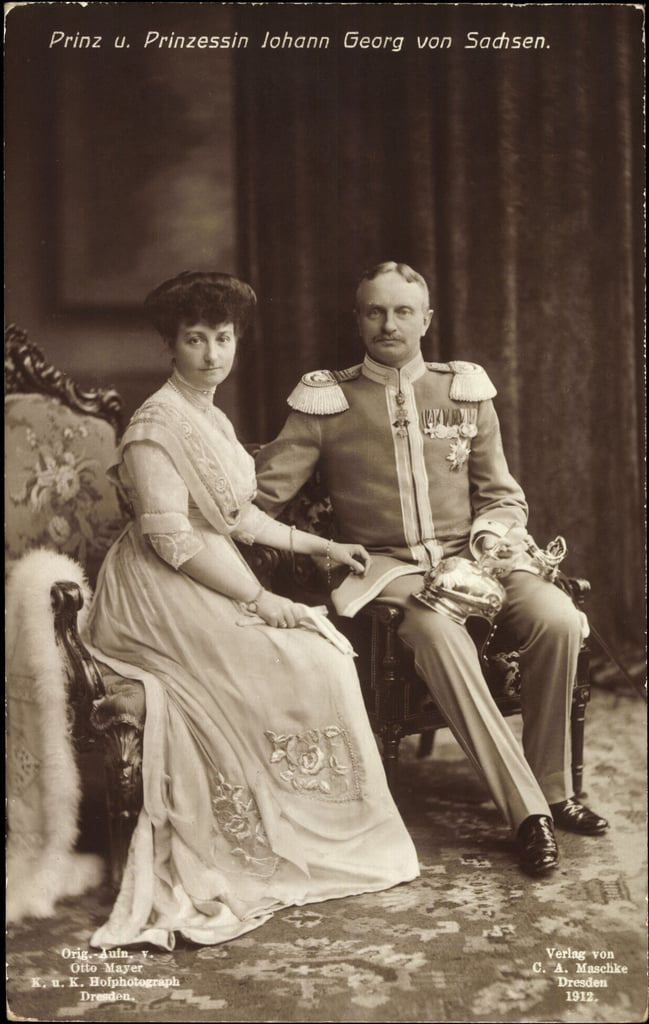 Prinz und Prinzessin Johann Georg von Sachsen = Prinz Johann von Sachsen & Prinzessin Marie Immaculata von Bourbon-Sizilien